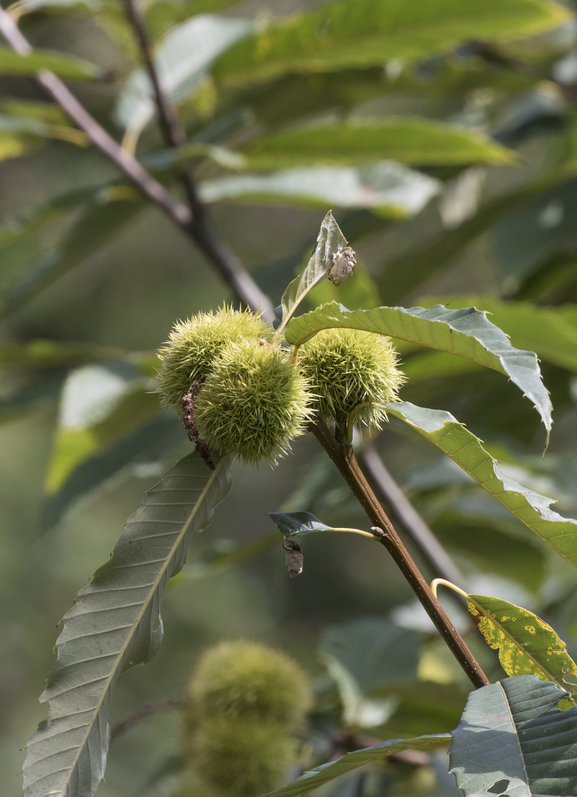 Sweet chestnut (Castanea sativa). Espiye - Giresun, Turkey.